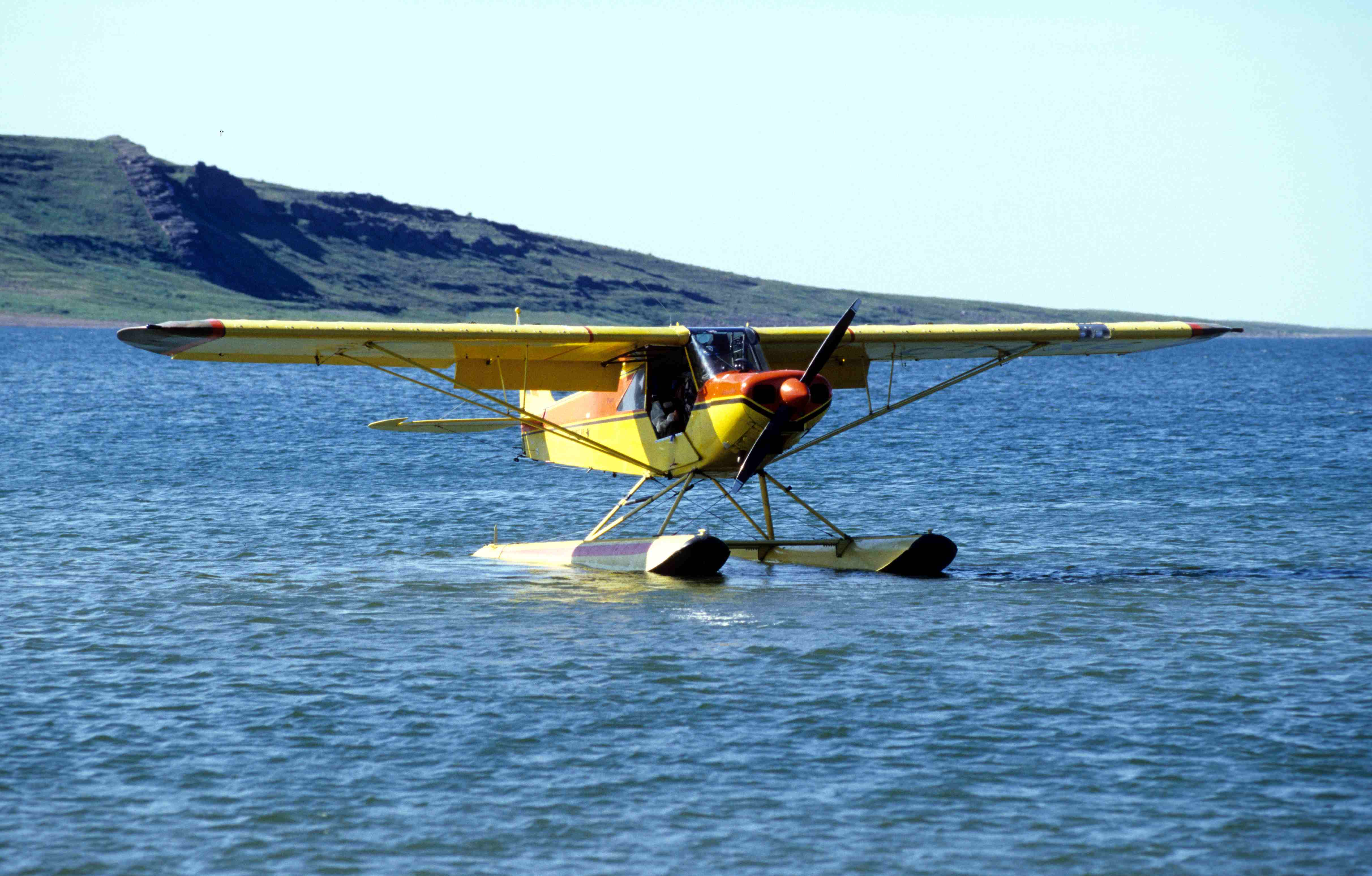 Piper PA-18-150 “Super Cub” (floatplane version) at Tinney Cove (Bathurst Inlet)